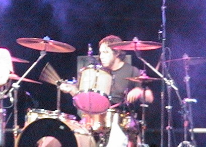 Allen Shellenberger performing with Lit in 2004